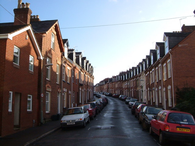 Portland Street, Exeter A somewhat austere Victorian street of brick terraces in the Newtown area. This photo takes in 4 grid squares; much of the terrace up the hill on the right is in SX9392.